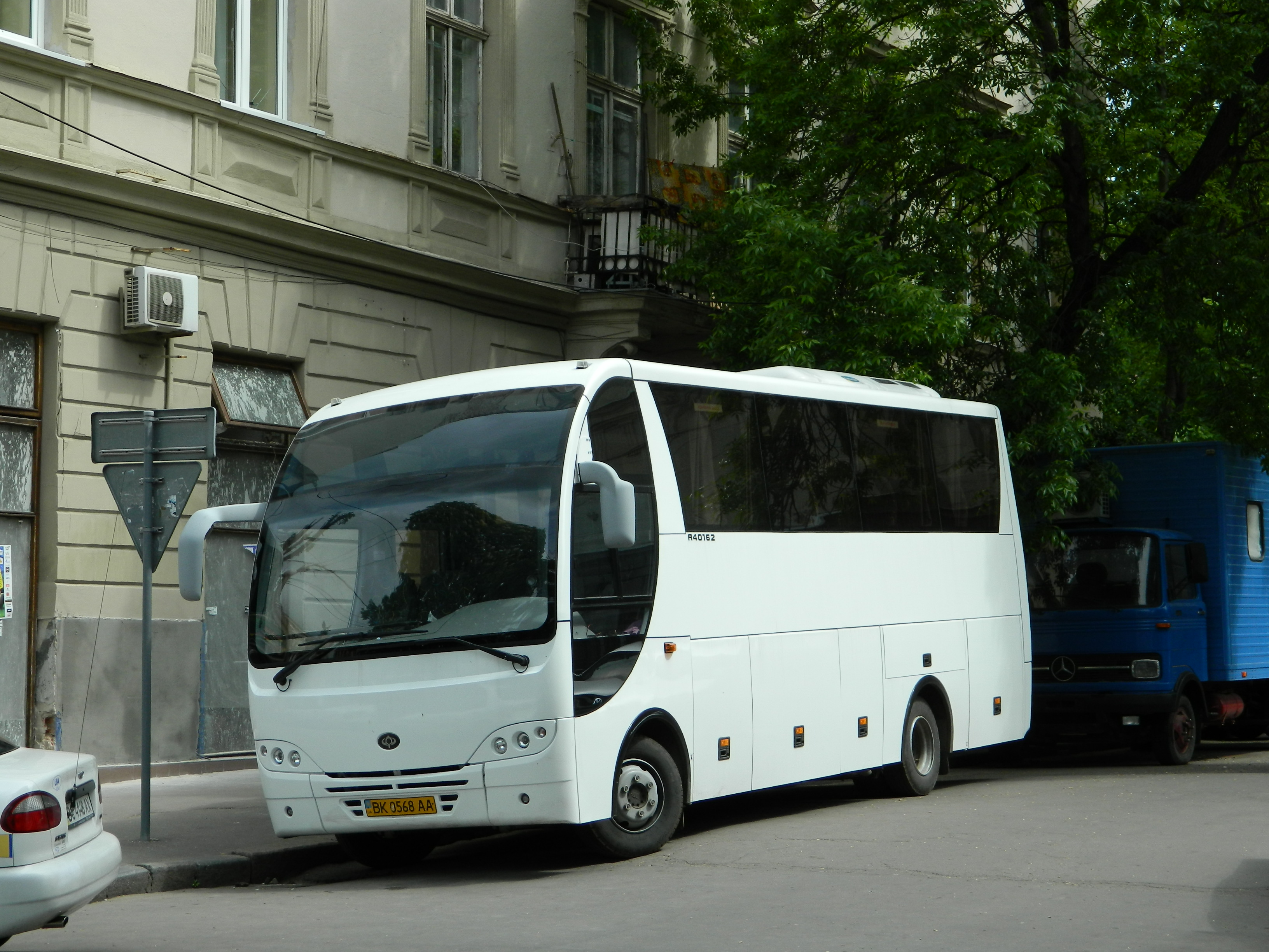 Bogdan A401 midi-bus from Kyiv oblast.